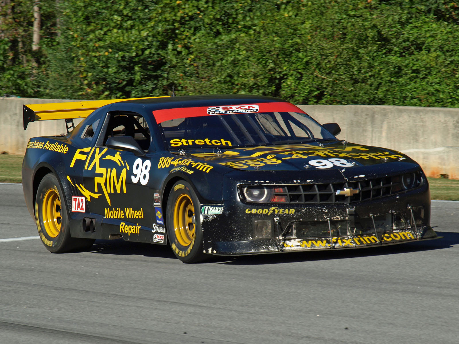 Bob Stretch's TA2-class Chevrolet Camaro during the Trans-Am Series race at the 2011 Petit Le Mans weekend at Road Atlanta.